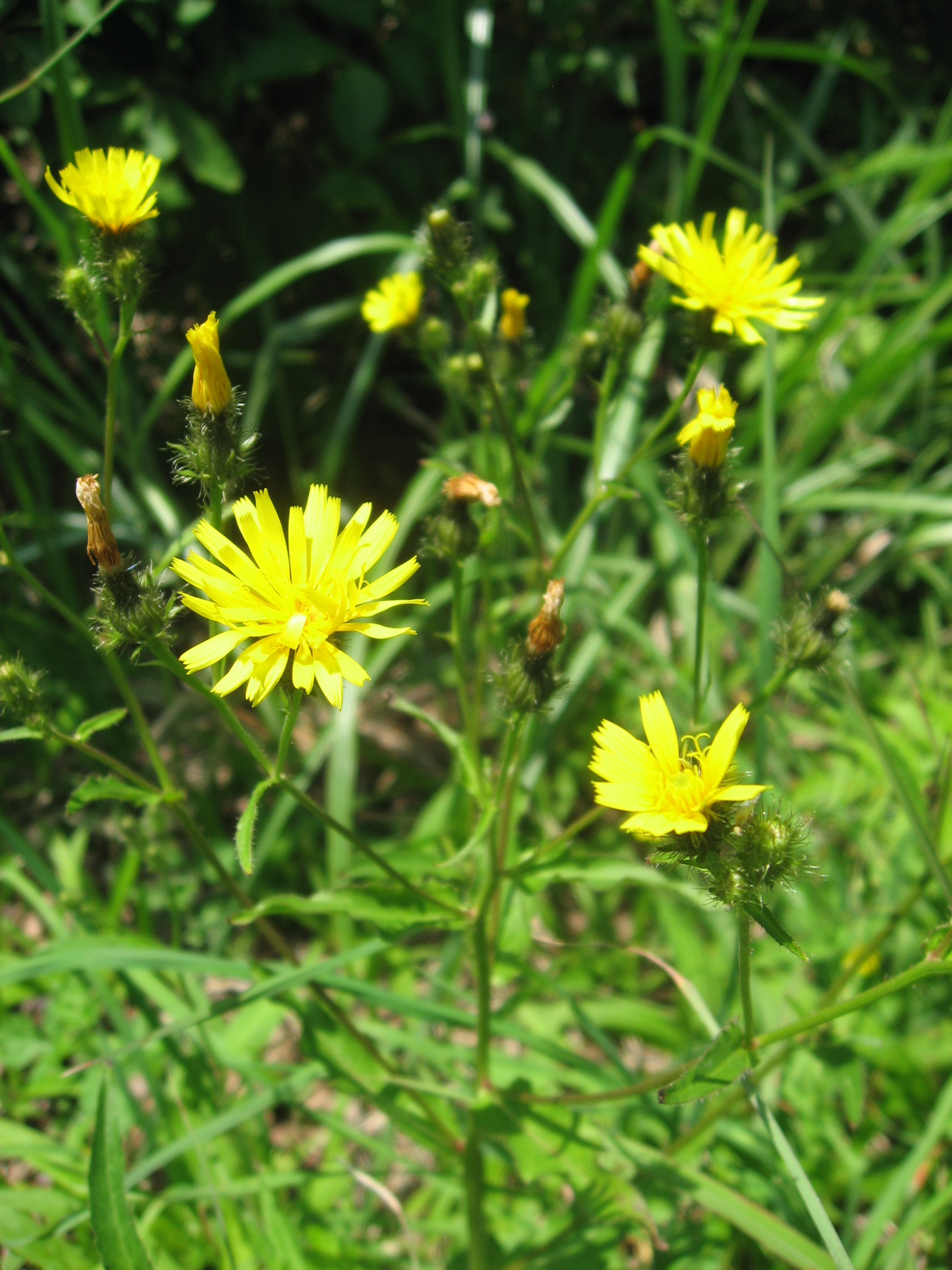 Picris hieracioides subsp. japonica, Aizu area, Fukushima pref., Japan